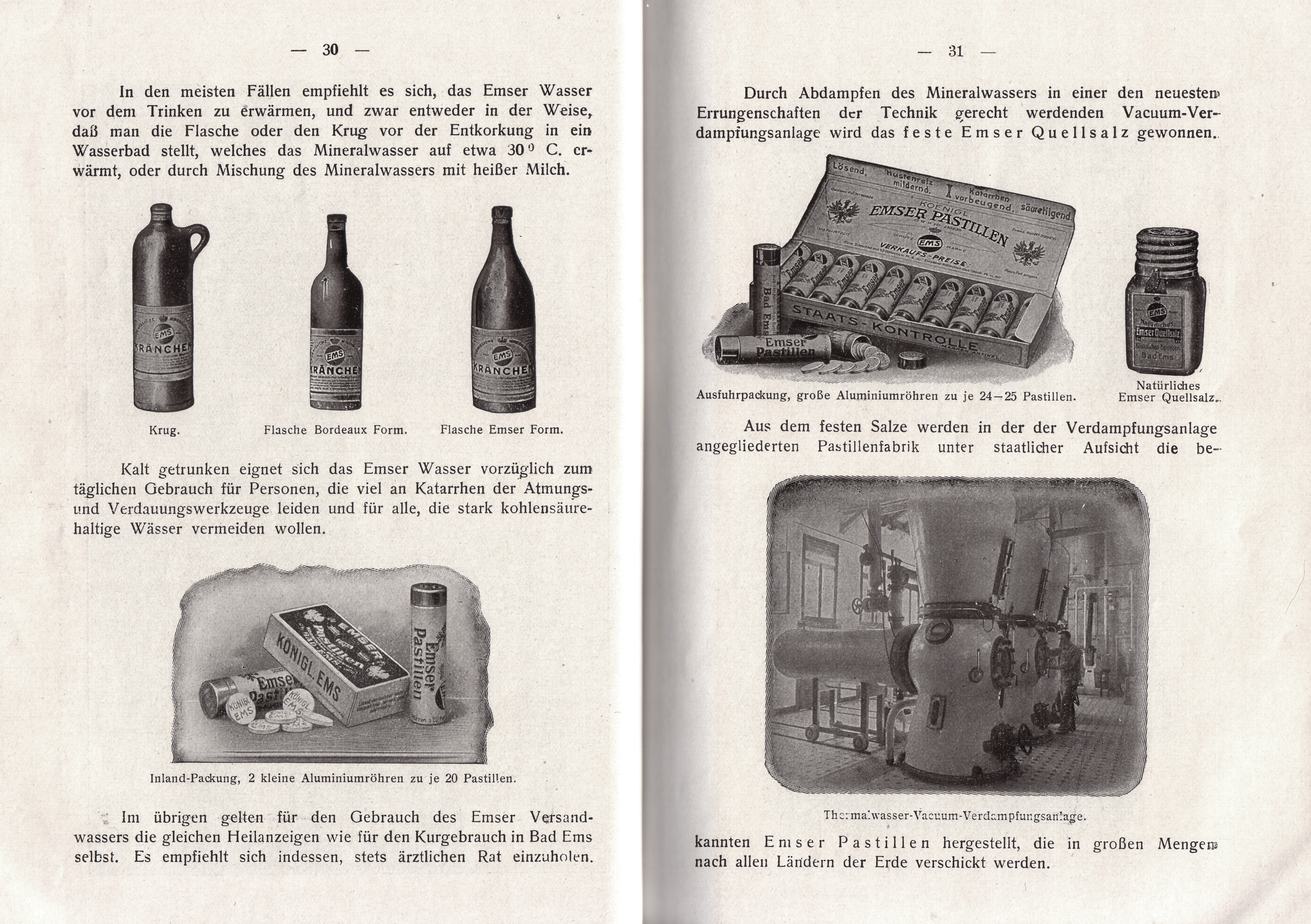 image: pastilles, brine and mineral water from the spa Bad Ems, around 1913.